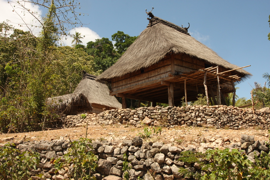 Holy house of Borulaisoba in Ahabu'u